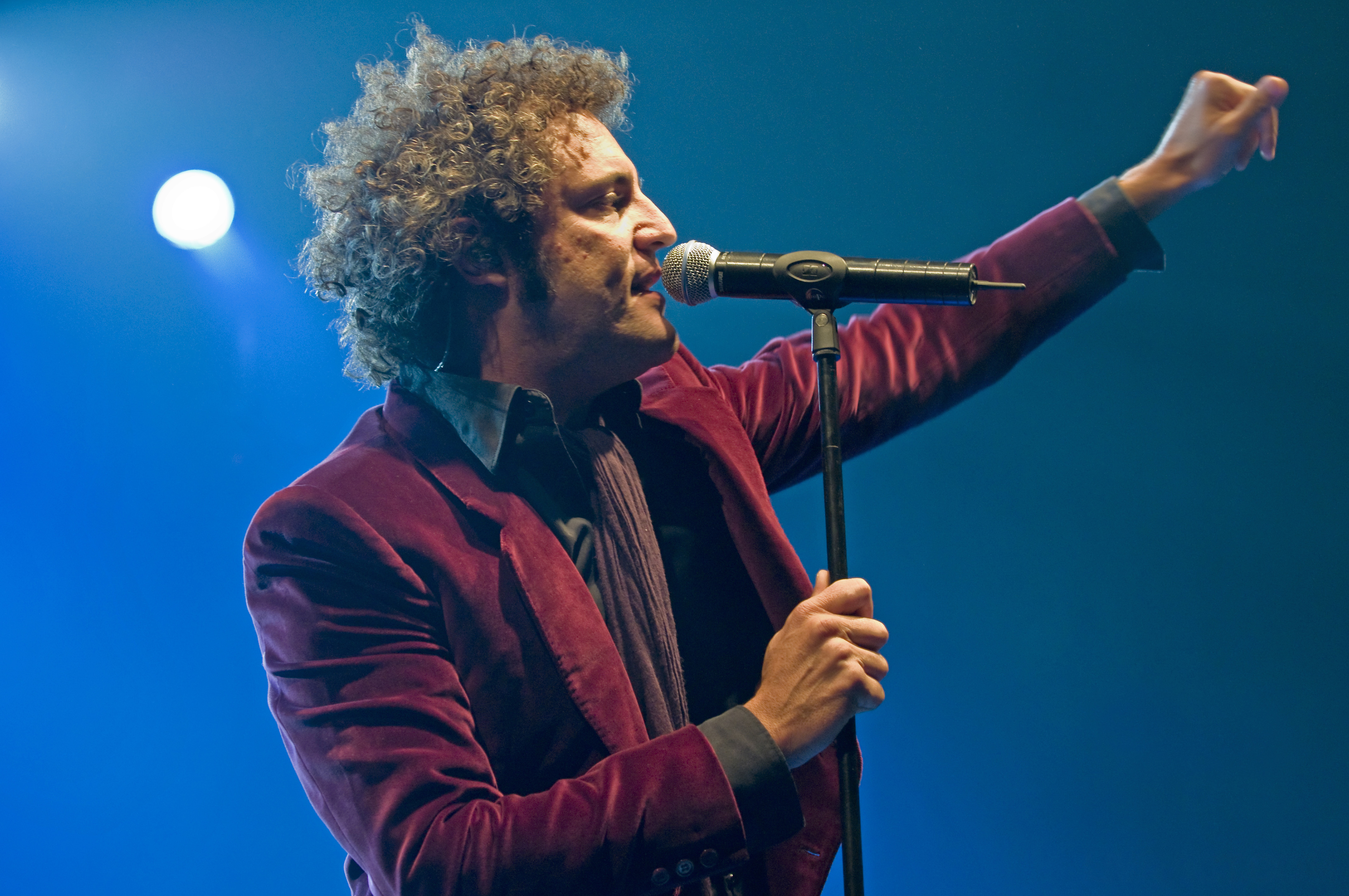 M-Clan